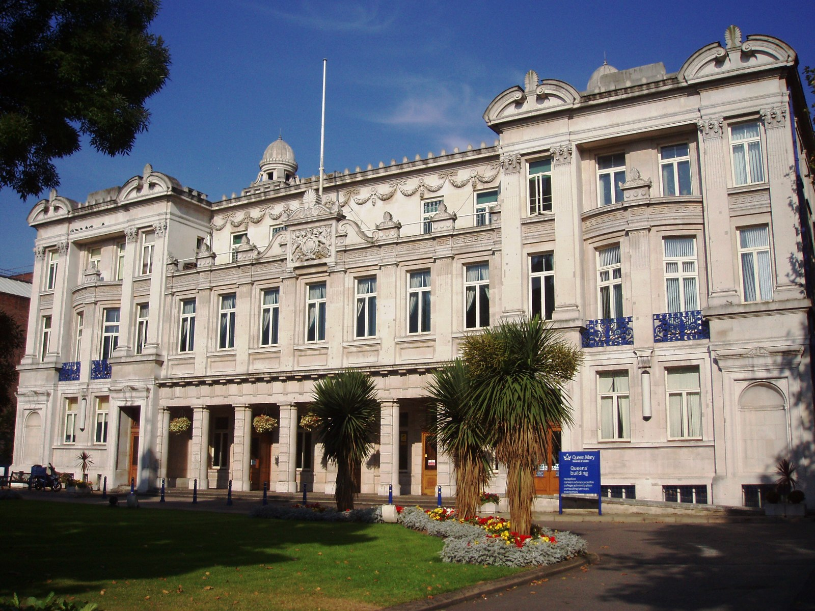 Main admin building for Queen Mary University (QMUL), I believe. (Photo of clocktower out the front.) Address: Mile End Road.